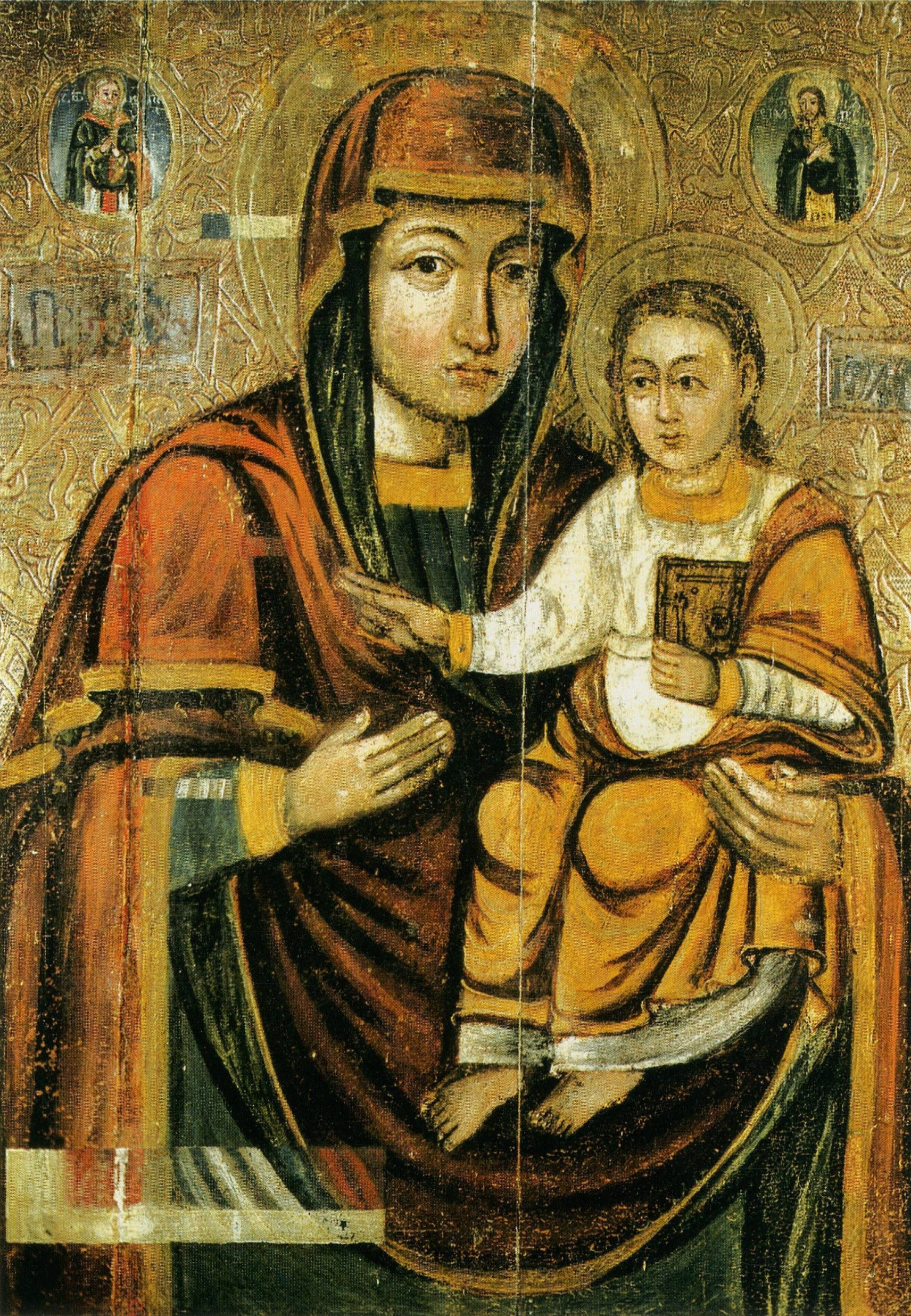 THE VIRGIN AND CHILD. Late 17th — early 18 th c. Wood, tempera. 142x118x2,5. St. Michael's Church, Takary, Kamianiets district, Brest region. Restoration - A. Shpunt.